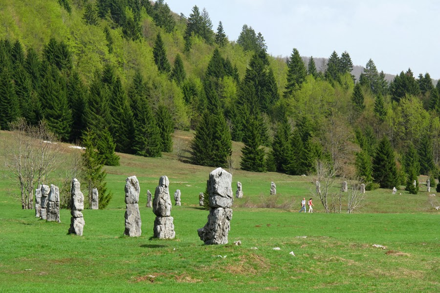 Monument to the 26 Yugoslav partisans who froze to death during the march over the Matić-field on 19th and 20th of February 1944.